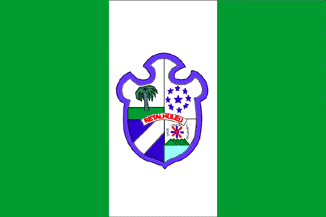 Flag of Retalhuleu.